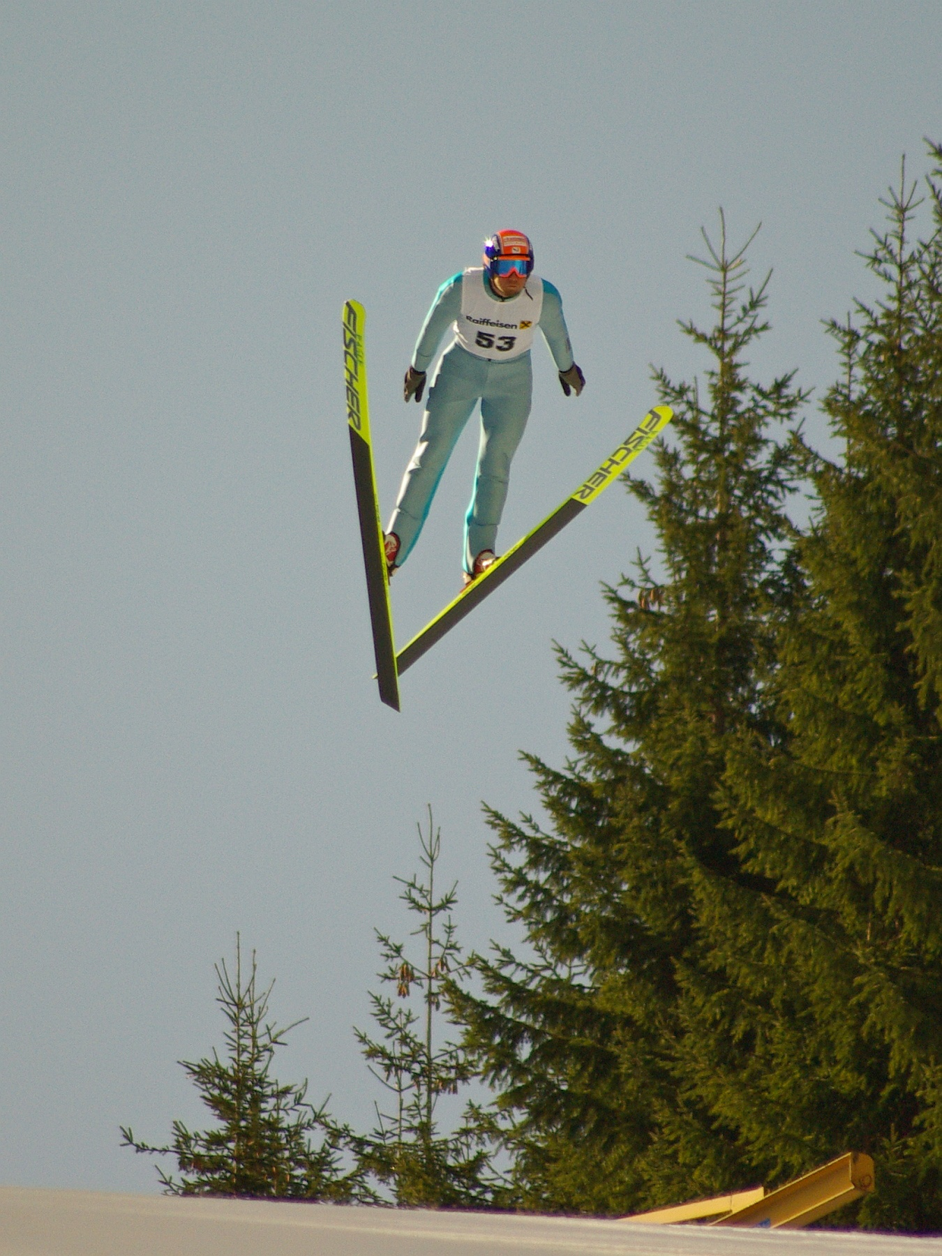 French nordic combined skier Jonathan Felisaz during the World Cup B sprint event in Eisenerz (Austria) on 9 March 2008.